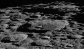 Oblique view of Millikan, facing north, on the far side of the moon.